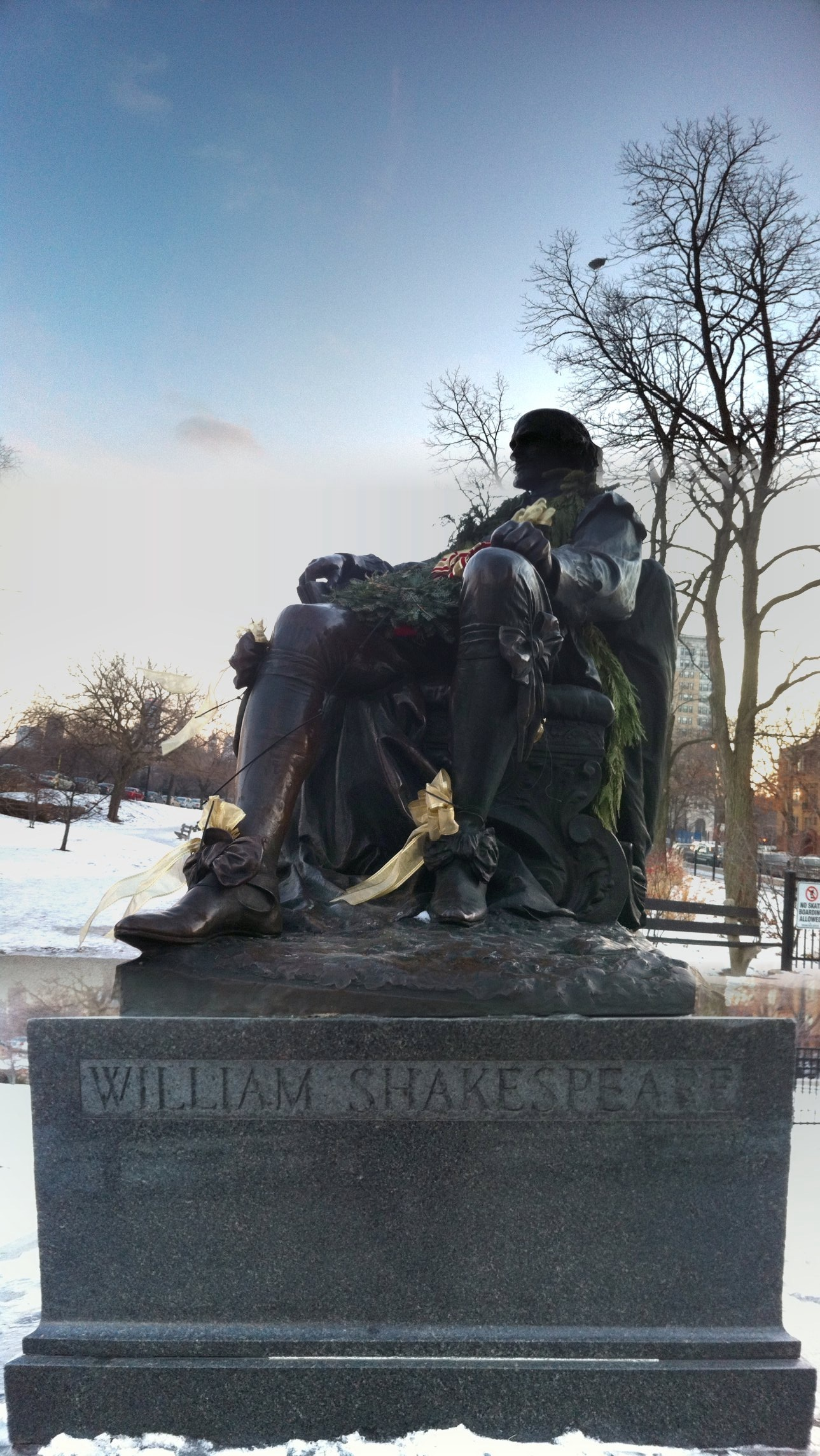 William Shakespeare statue in Lincoln Park, Chicago, by William Ordway Partridge, 1893.